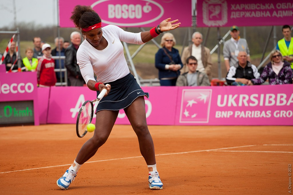 Part two of her forehand.